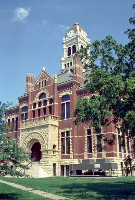 The Franklin County Courthouse, located at the intersection of Central Ave. and 1st St., NW. in Hampton, Franklin County, Iowa, United States. Built in 1891, it was added to the National Register of Historic Places on 13 August 1976.